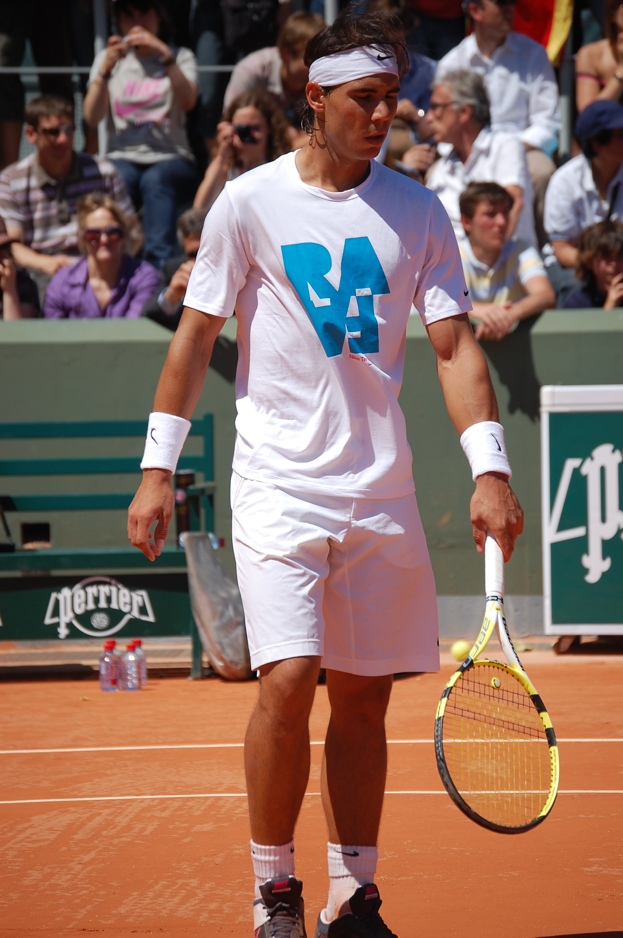 Rafael Nadal training in Roland Garros, 2009 French Open